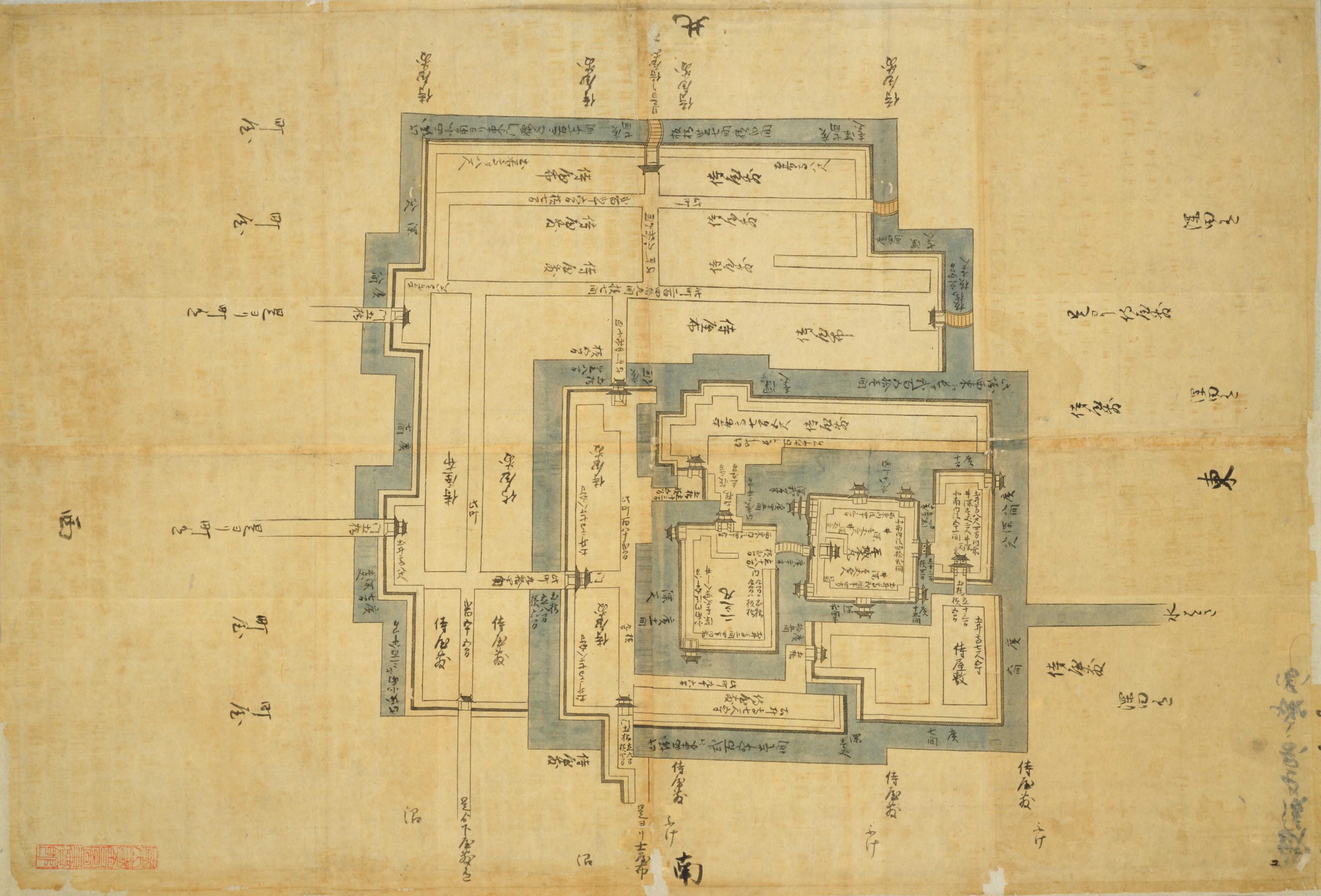 "Nihon kojō ezu - Hokurikudō no bu (2) - 233 Echigo no kuni Nagaoka no shiro zu". Japanese old castles plans - The part on the Hokurikudō (2) - 233 The plan of the Echigo Province Nagaoka Castle.